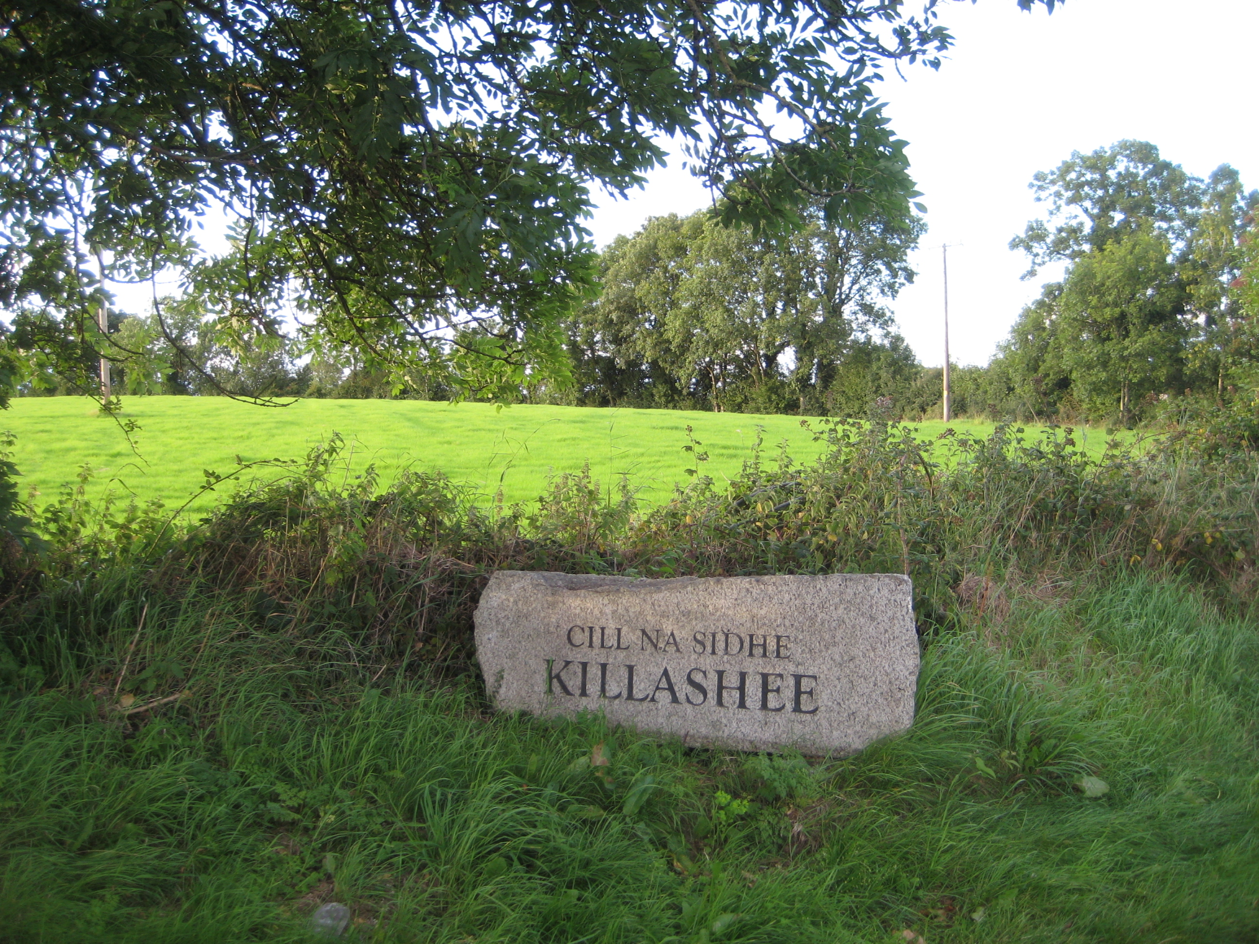 Welcome Sign to Killashee on Lanesboro Road opposite Church of Ireland